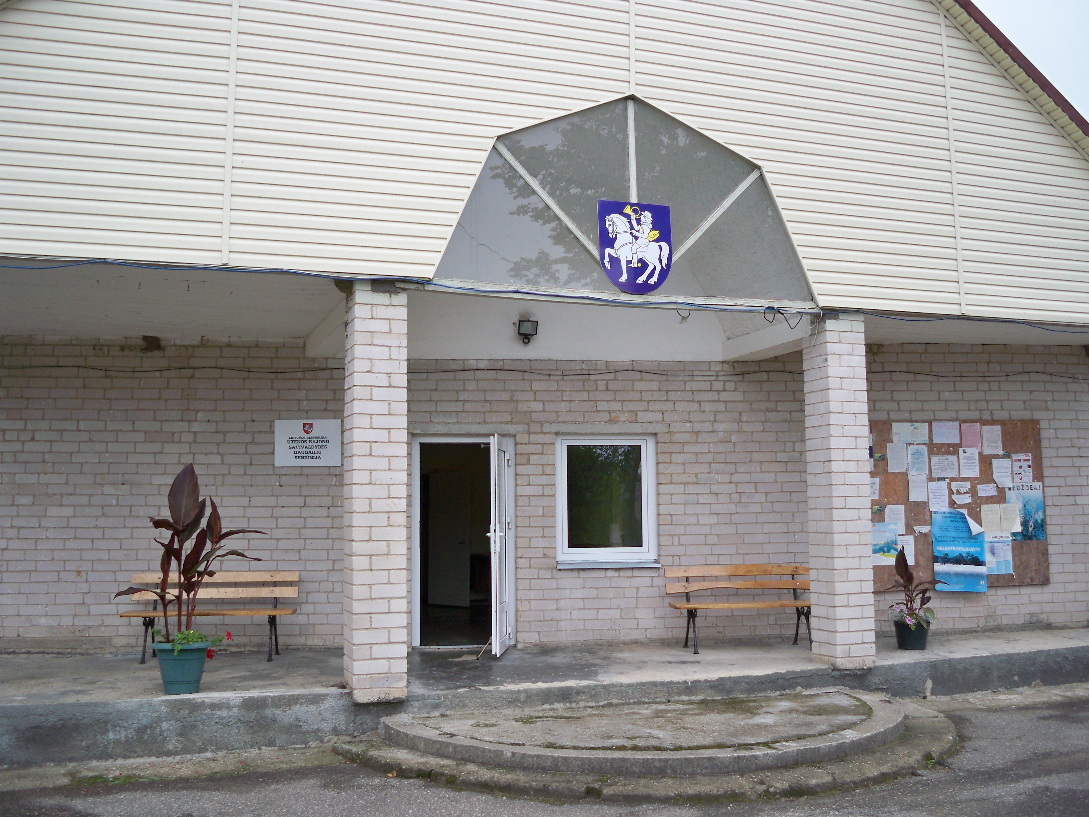 Daugailiai eldership headquarters.